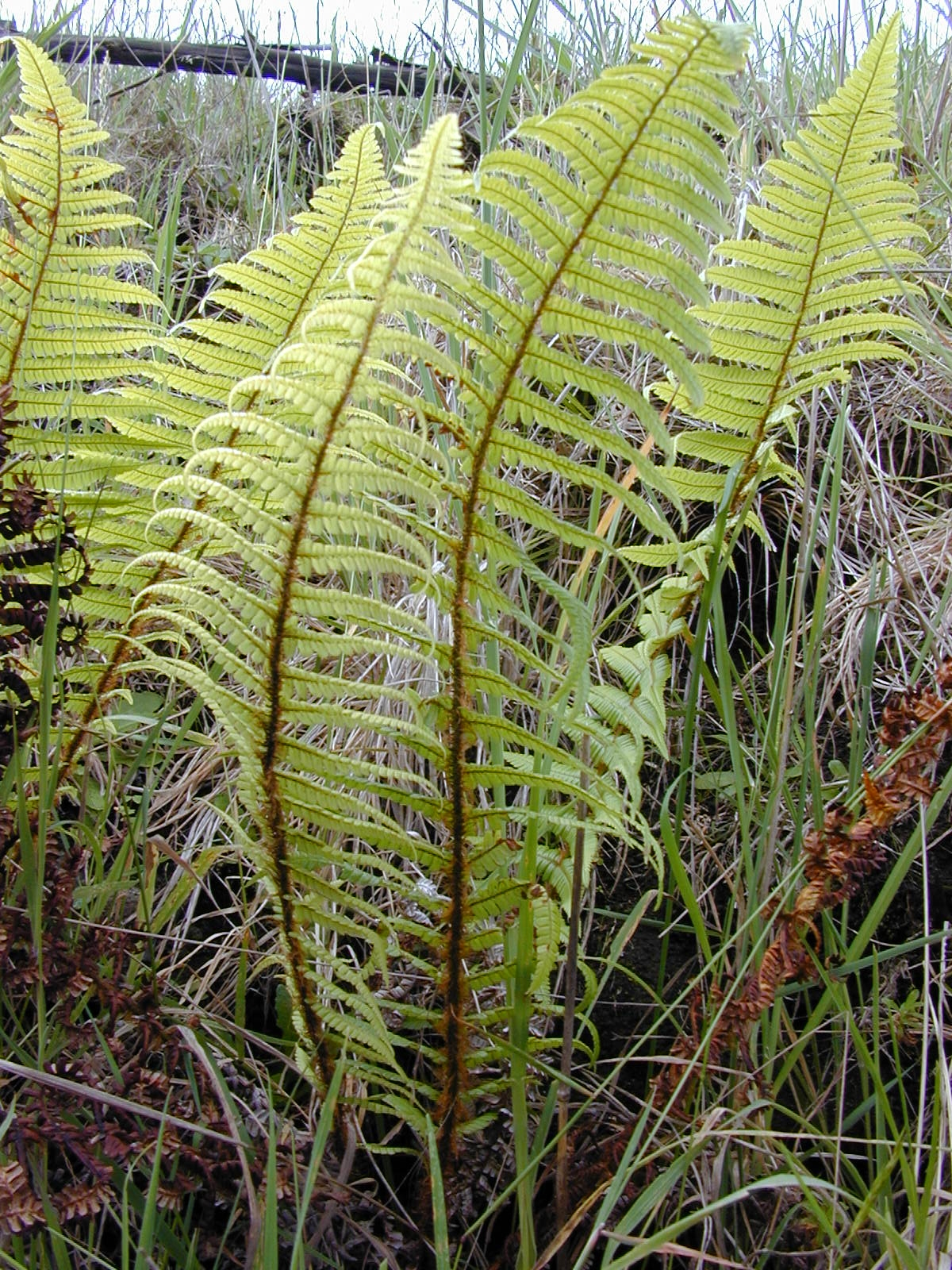 Dryopteris wallichiana (habit). Location: Maui, Polipoli